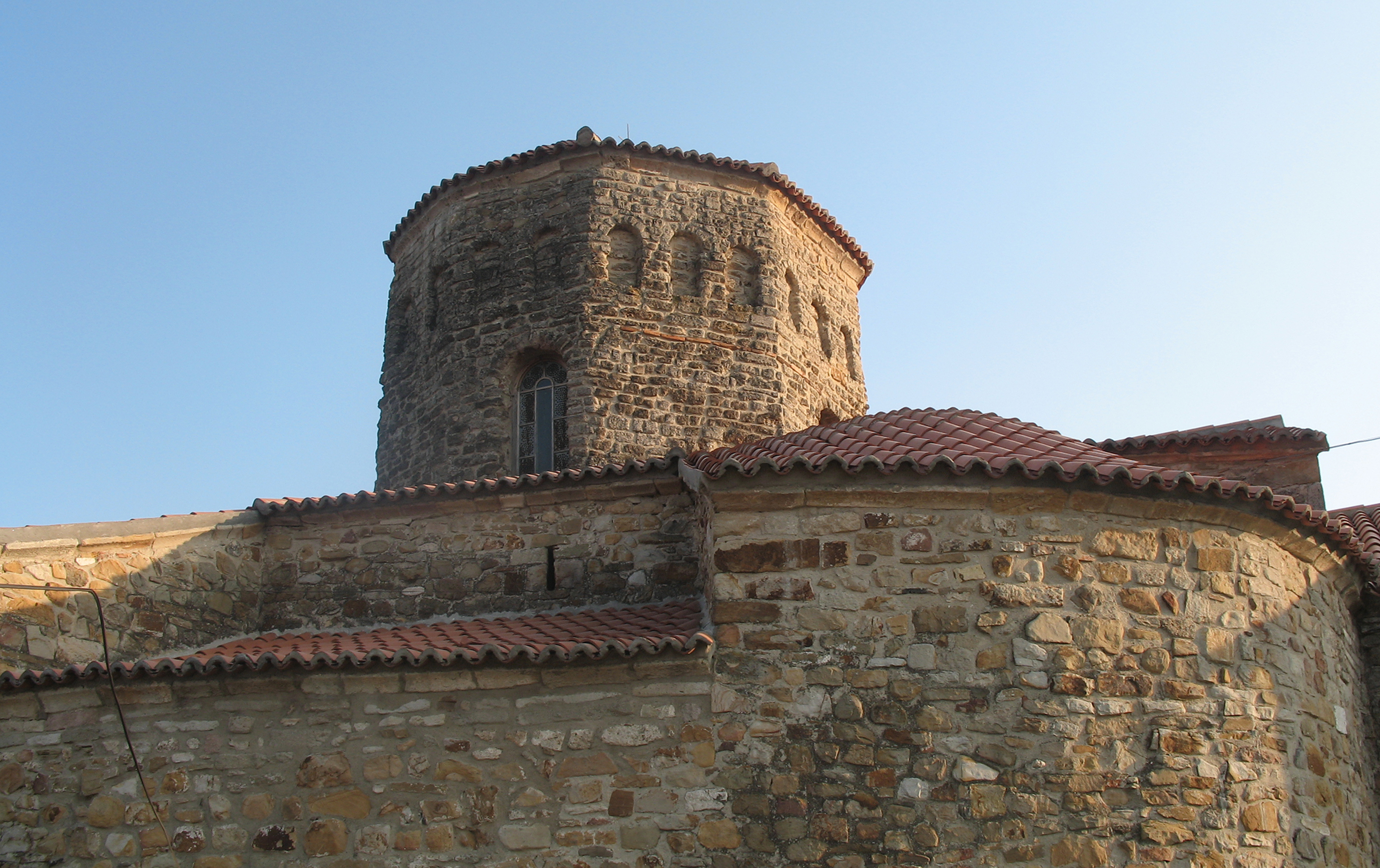 Saint Peter Church in Ras, Serbia